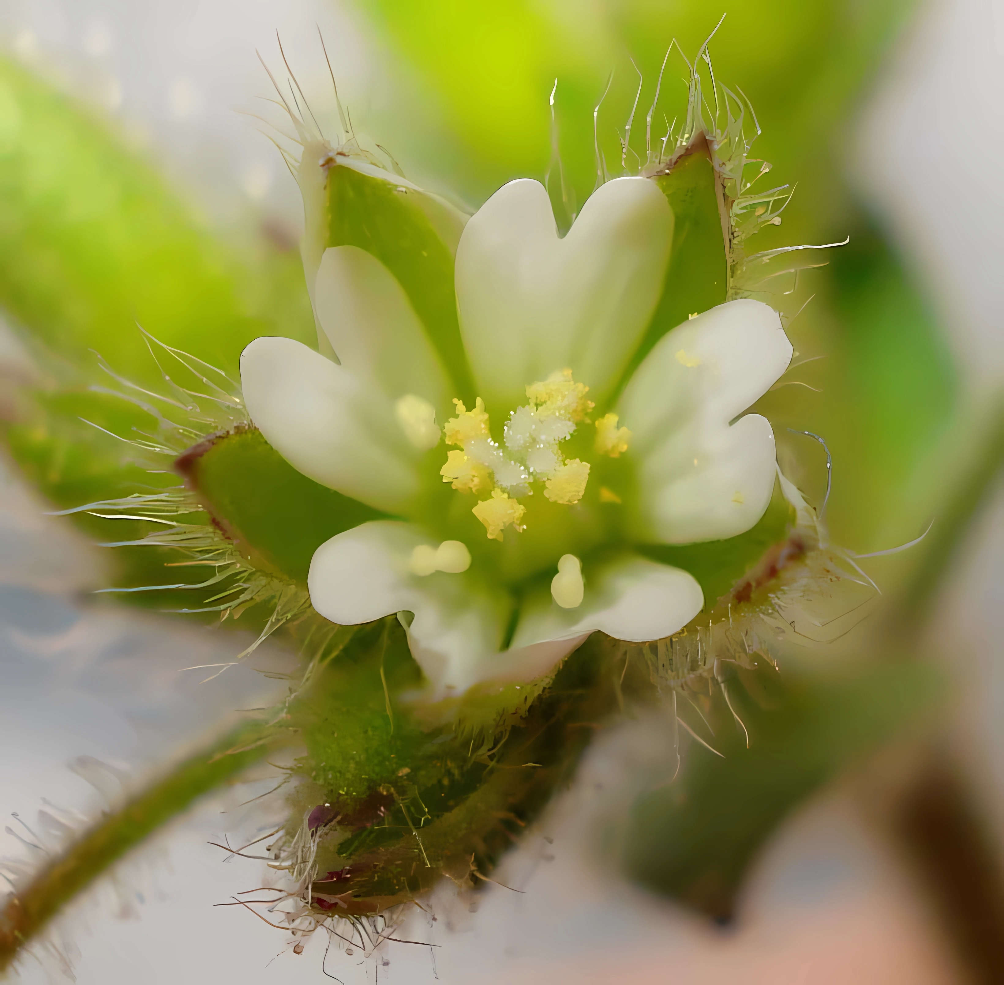 Cerastium brachypetalum (Unterfranken, Germany)